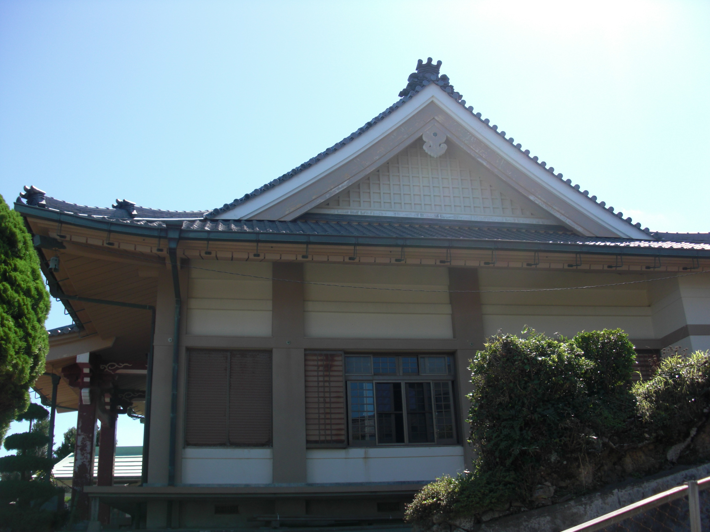 This is the Jofuku-ji Temple, which is located in Kuzaki-cho, Toba, Mie, Japan.